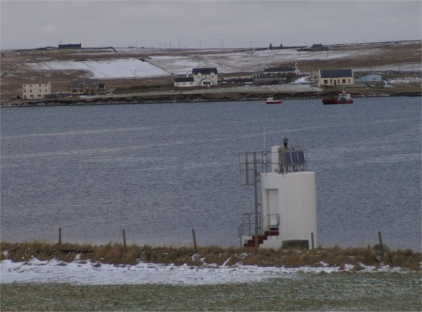 Uyeasound light The tiny lighthouse at the west mouth of Uyeasound. The school and kirk are among the buildings in the background.